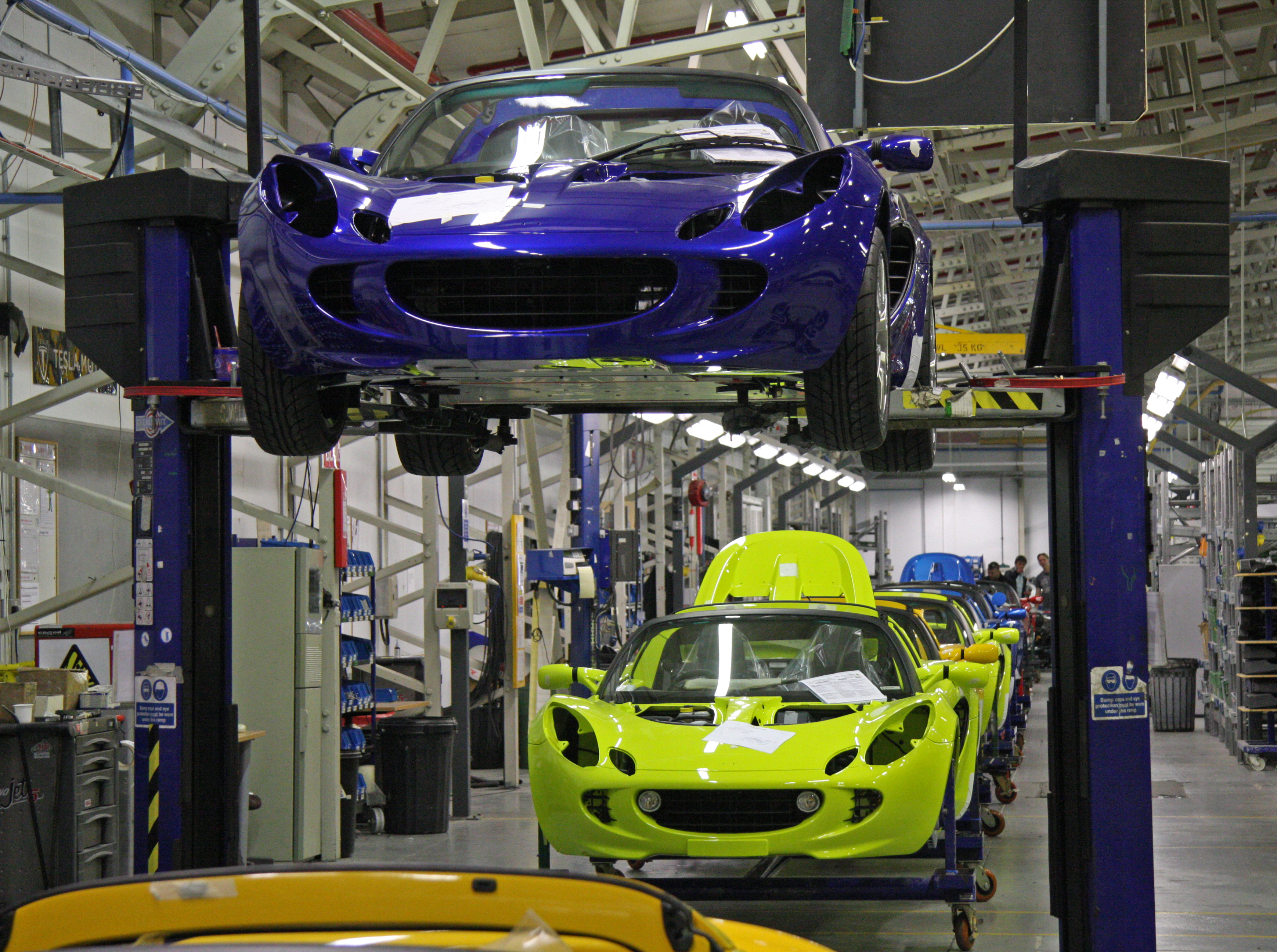 Lotus 60th Celebration